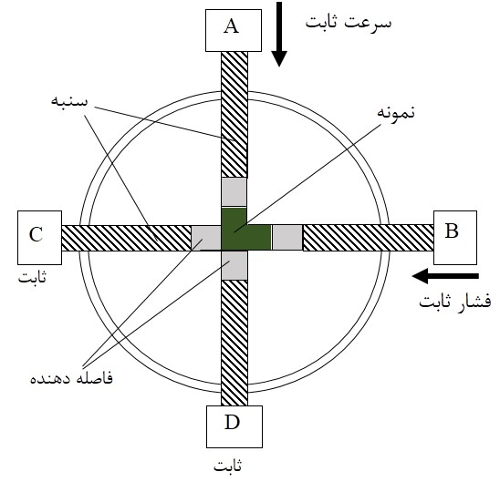 شماتیک فرآیند اکستروژن جانبی